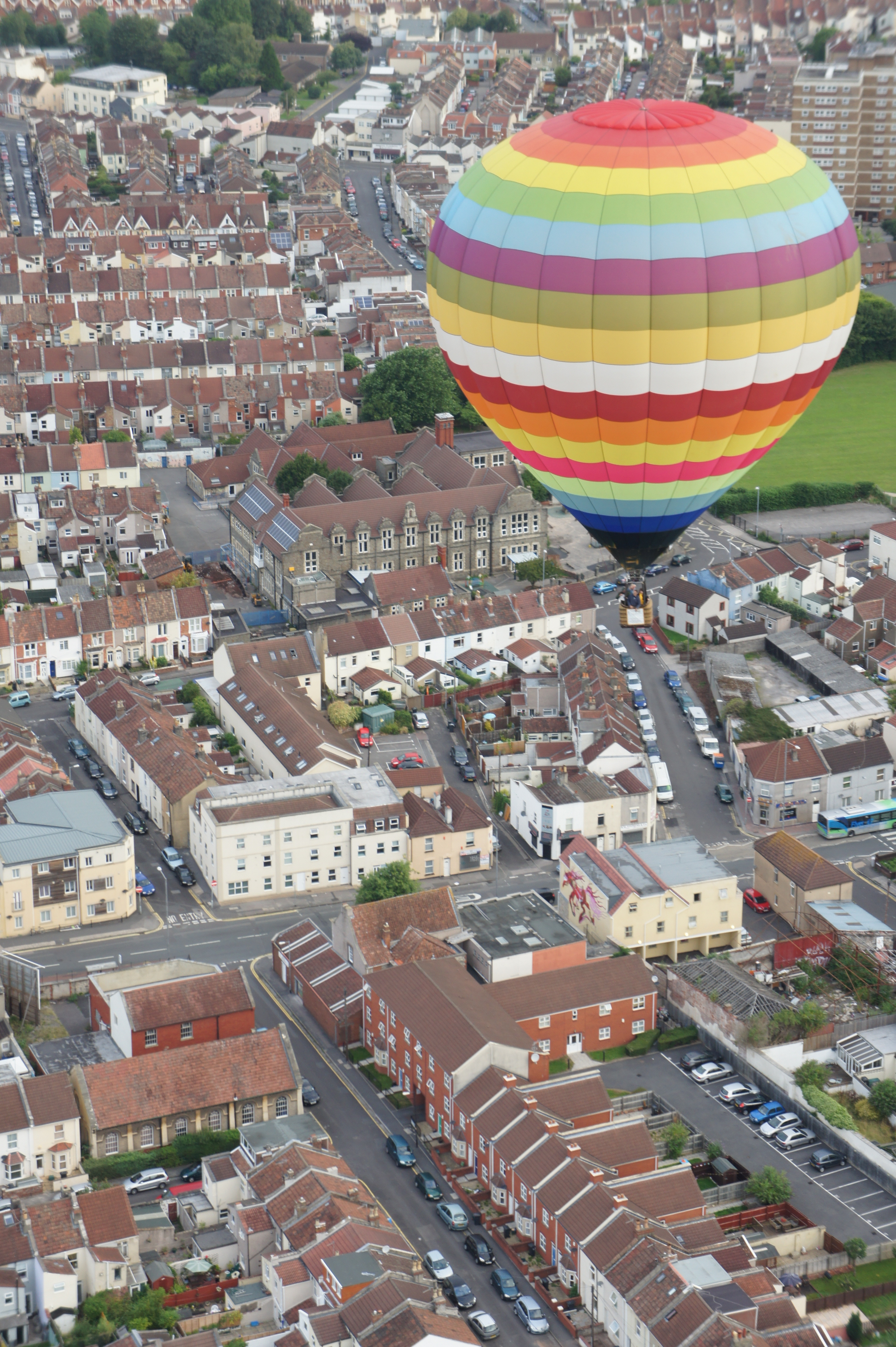 bibf (Bristol international Balloon fiesta) hot air balloon